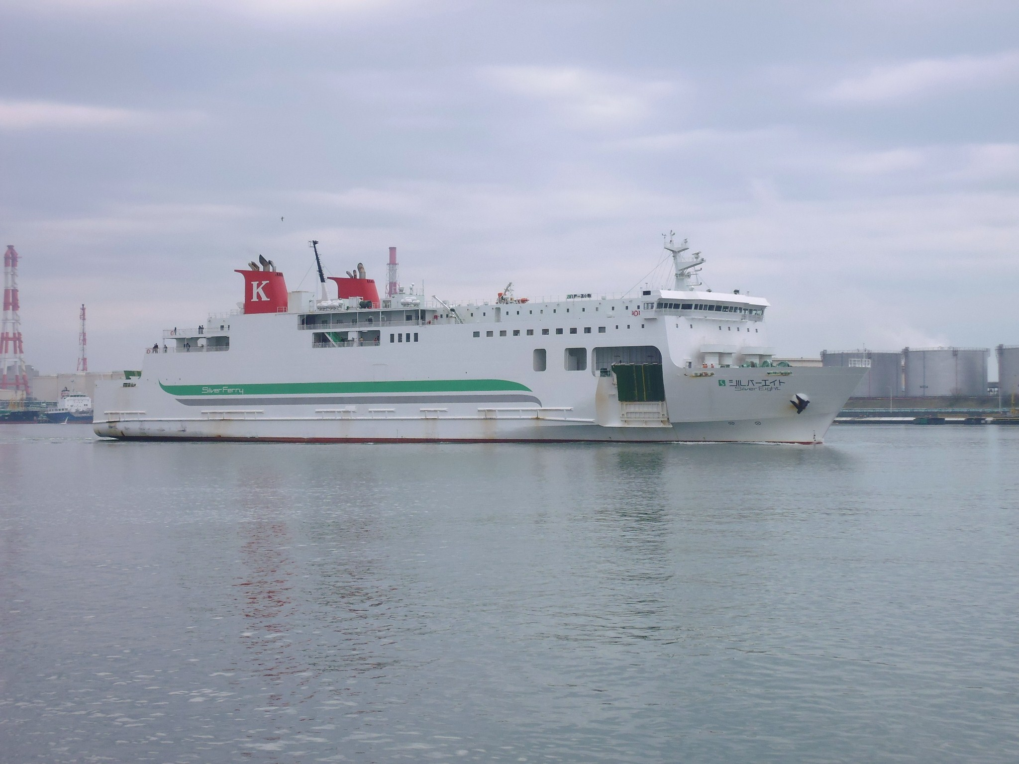 Silever Eight from K-LINE Kinkai(2017.5.6 Departure from Tomakomai)